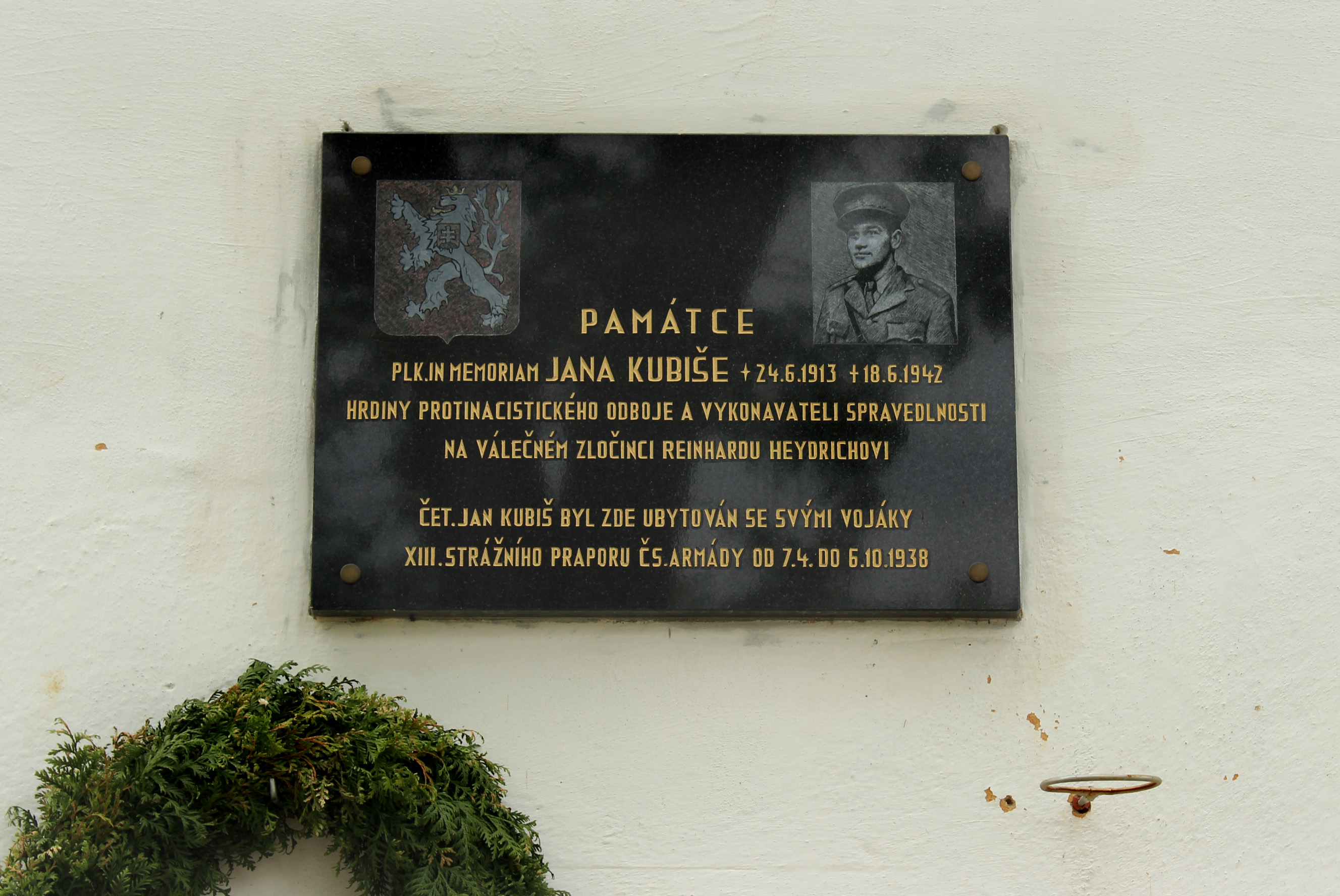 Plaque of Jan Kubiš in Sádek, part of Velké Heraltice, Czech Republic.